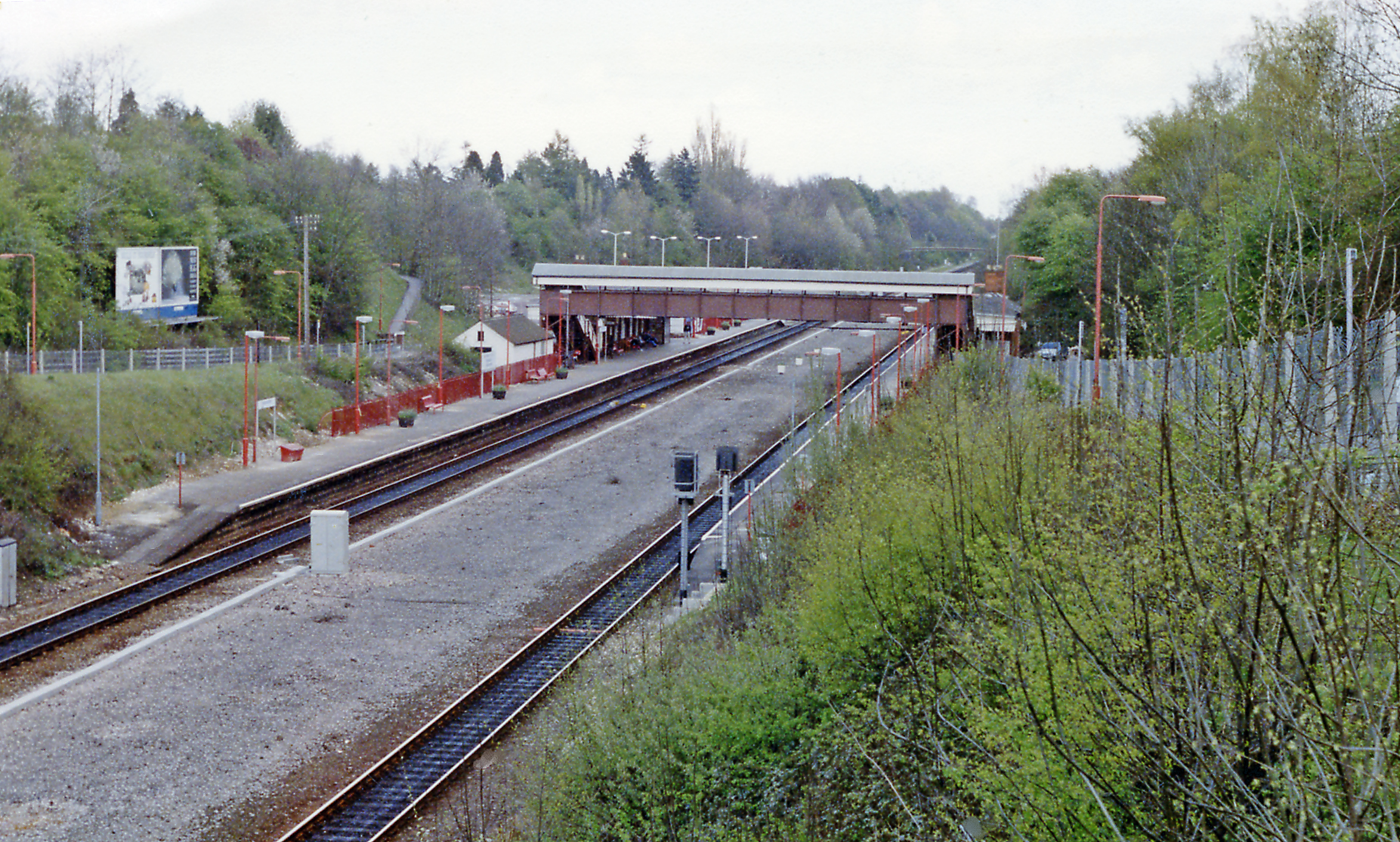 Beaconsfield station, 1990. View eastward, towards London: ex-GW&GC Joint Paddington - Birmingham/Marylebone - Sheffield main lines, which were joint for about 50 miles between Northolt Junction and Ashendon Junction. The Fast lines in the centre were probably taken up in the 1960s.